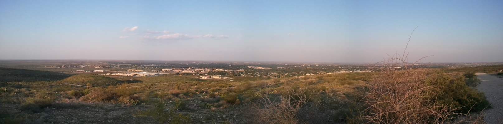 Panoramic photo of Carlsbad, NM from the top of C-Hill.